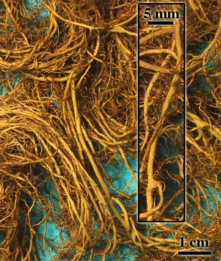 Close up picture of wila (Bryoria fremontii), an arboreal hair lichen. Shows main stems with characteristic contortions.